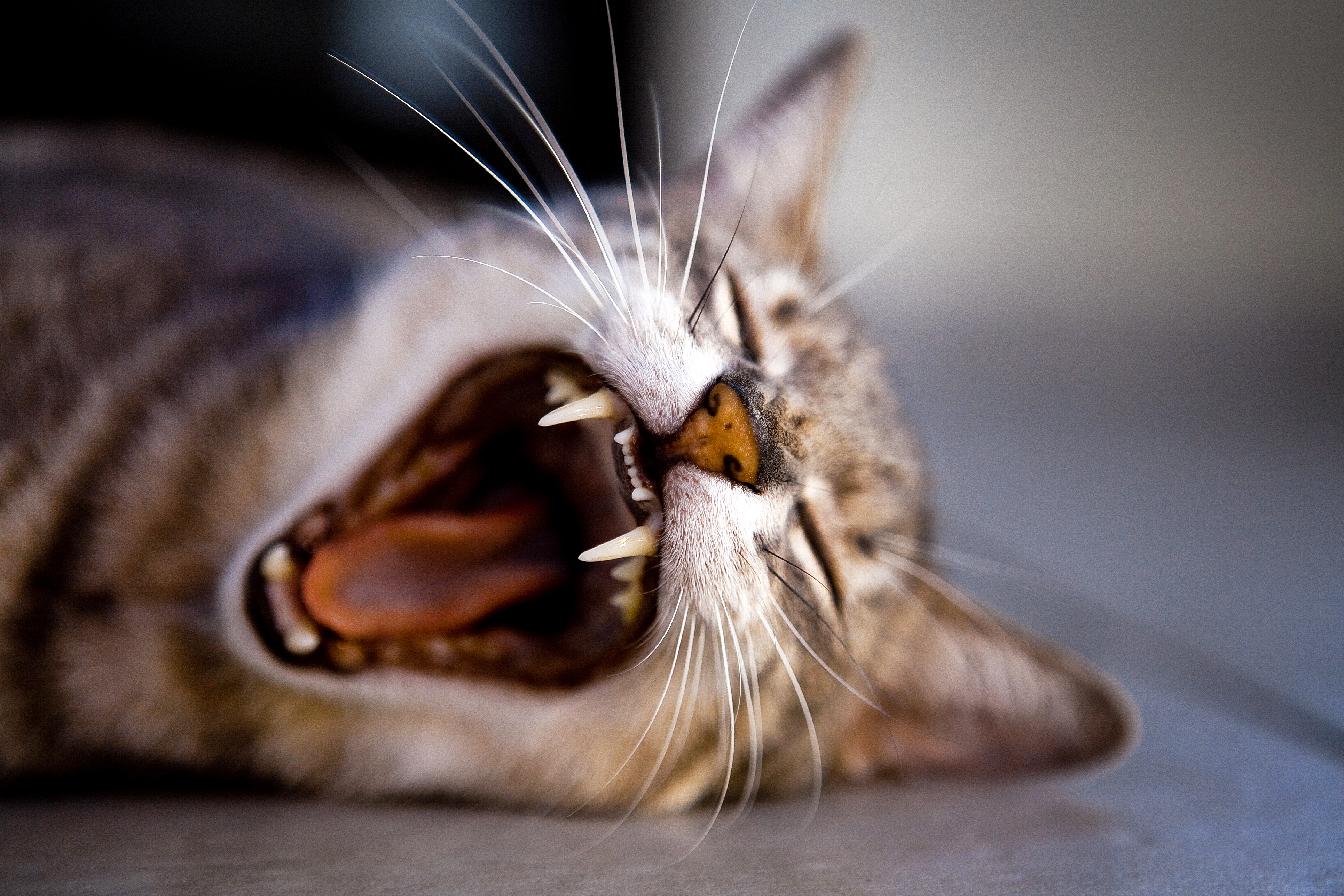 Cel Lisboa 2016-03-14